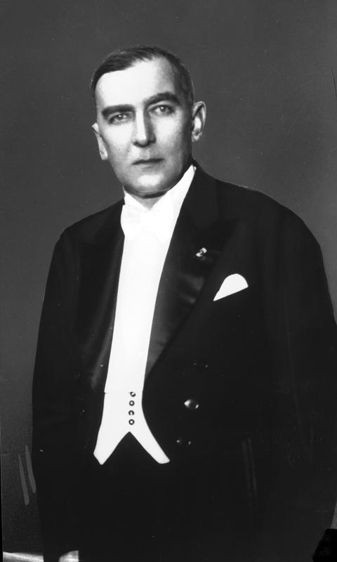 Karol Szymanowski